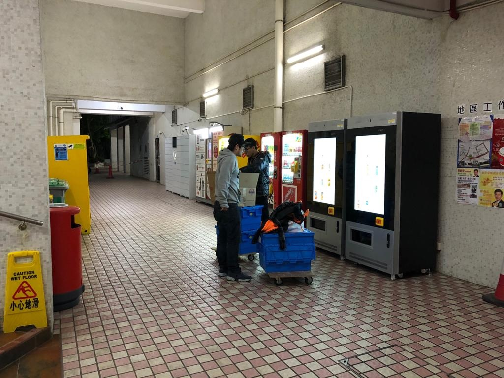 A smart vending console deployed at Golden Lion Garden Phase 2.